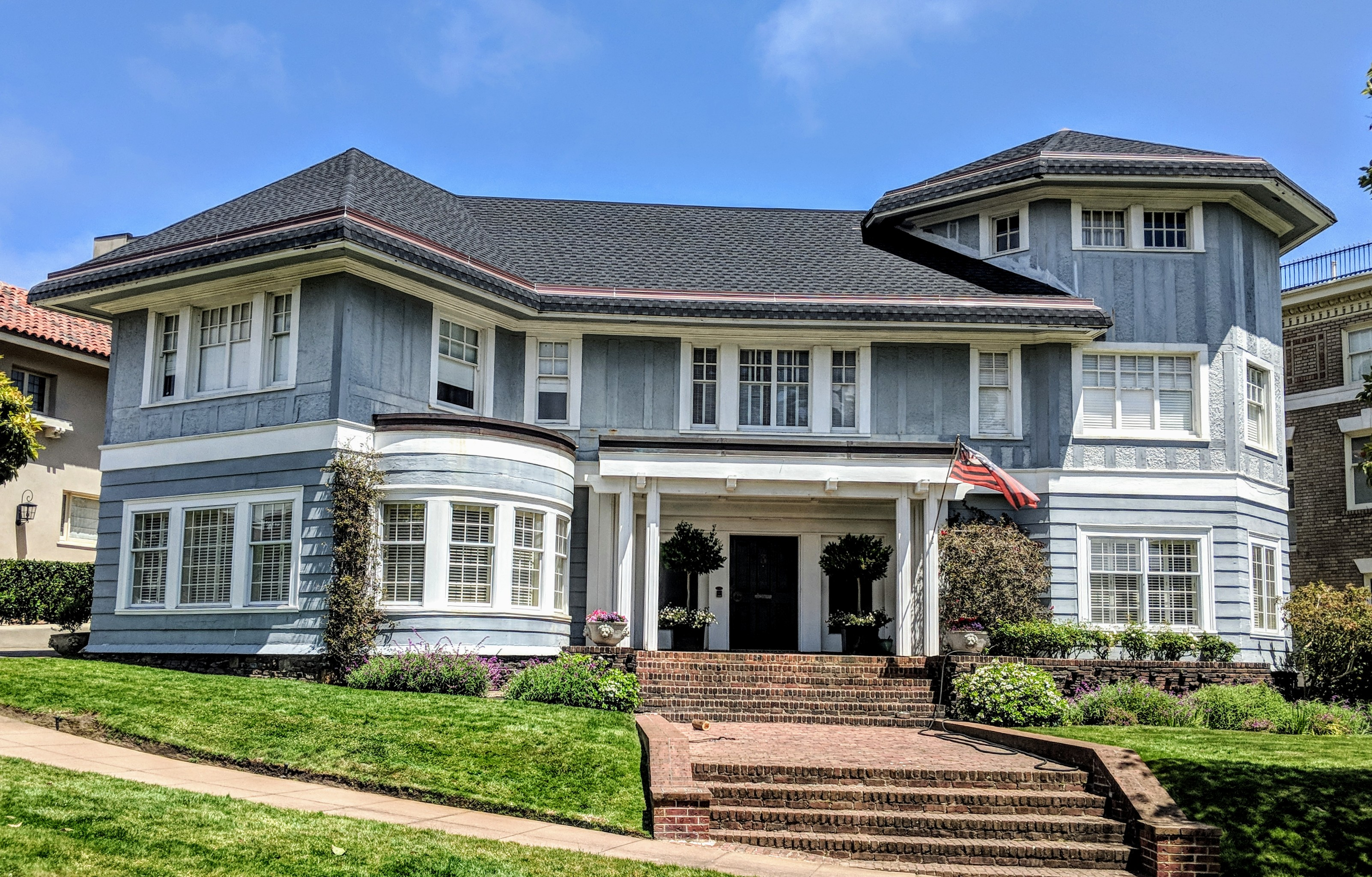 A home on Presidio Terrace in San Francisco. Photo by Jim Heaphy.